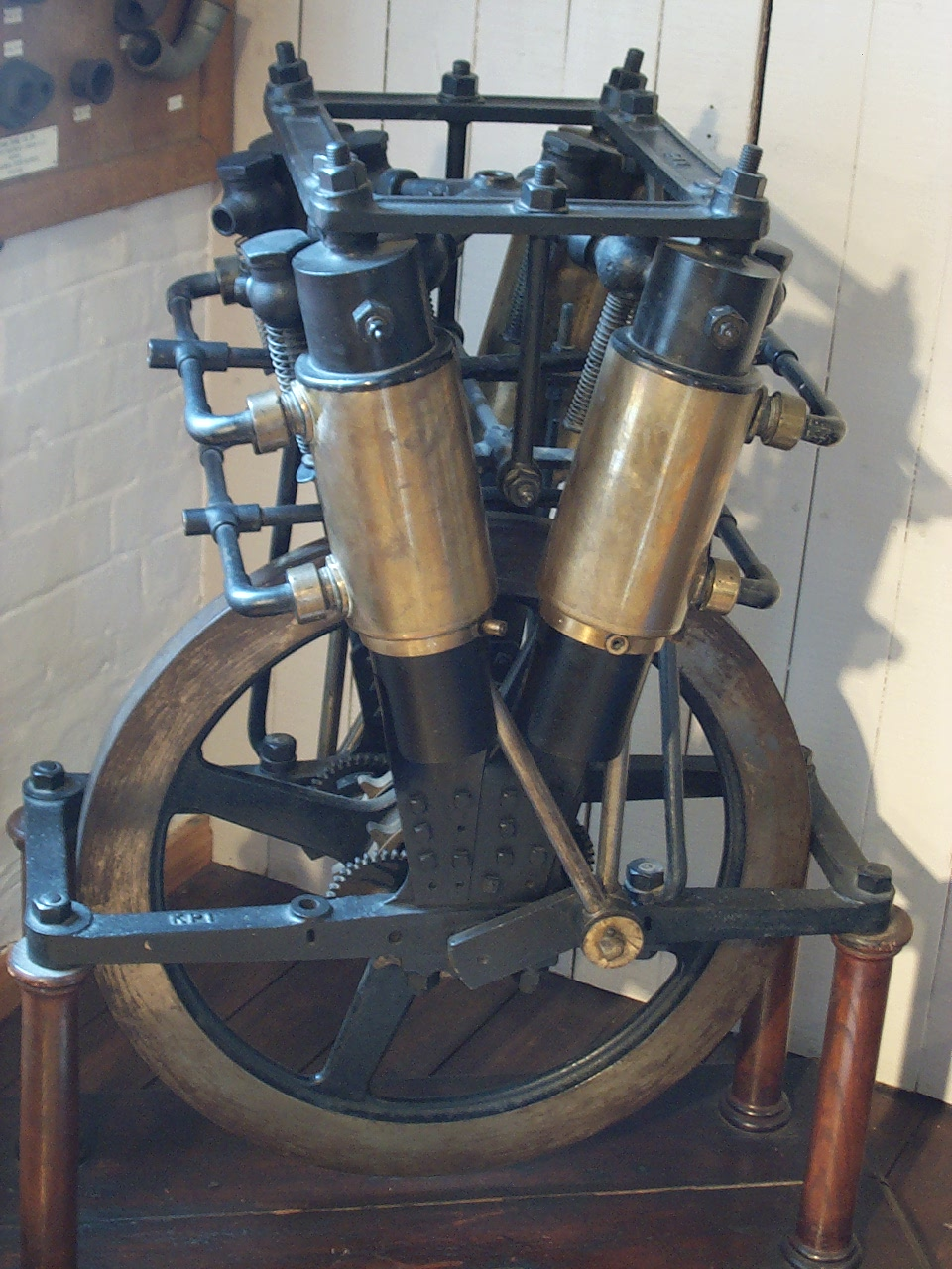 The Kane Pennington engine, manufactured June 1896 by J. and F. Howard at the Britannia Iron Works in Bedford. This is one of only two Pennington designed objects to still exist and is a 16bhp fuel-injected internal combustion engine.